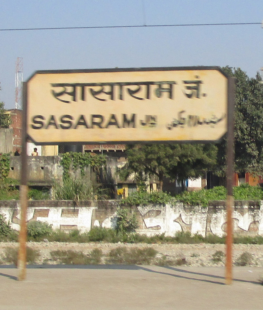 Sasaram Junction Railway Station nameplate